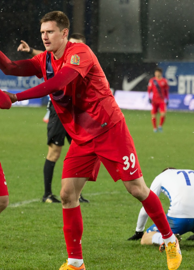 Maksim Vladimirovich Vasilyev with FC Yenisey Krasnoyarsk in a game against FC Dynamo Moscow.